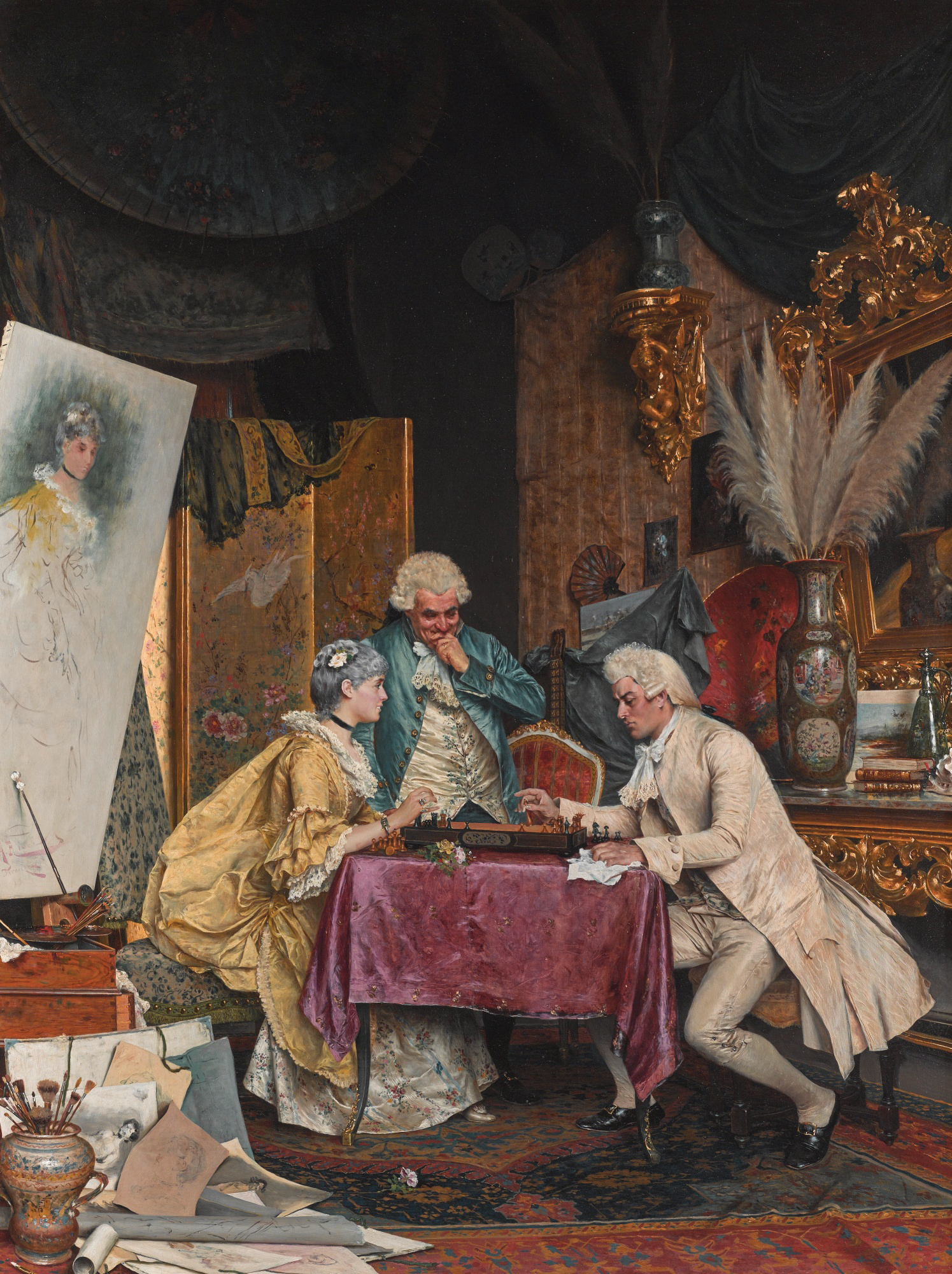 Sala artistica oil on canvas 106 x 79 cm signed b.l.: A. Ricci Firenze